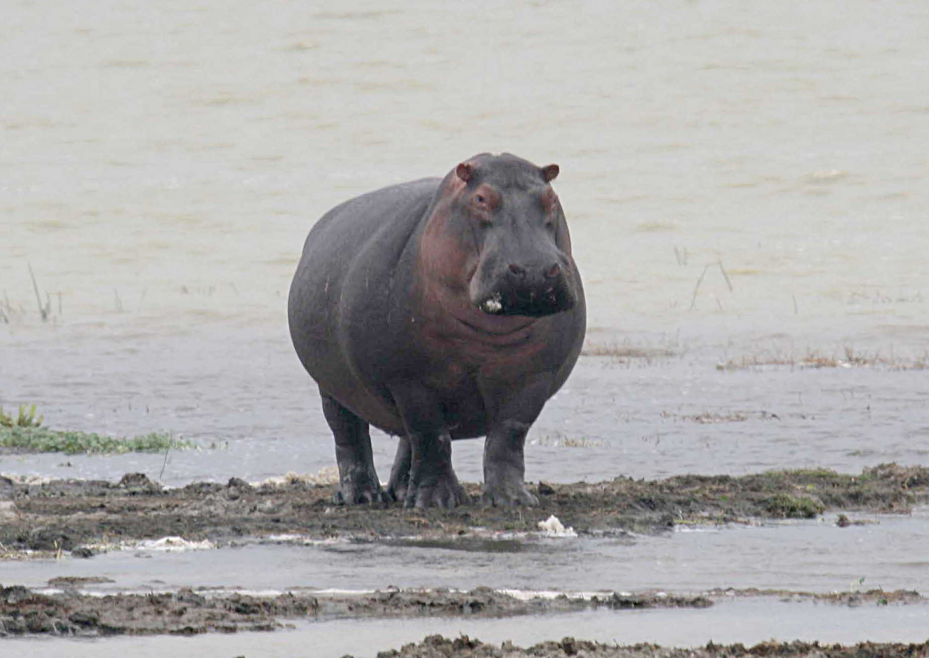 Hippopotamus amphibius out of water, Ngorongoro Crater, Tanzania. Author Photo by Lee R. Berger Orginal version Image:Hippo walking.jpg